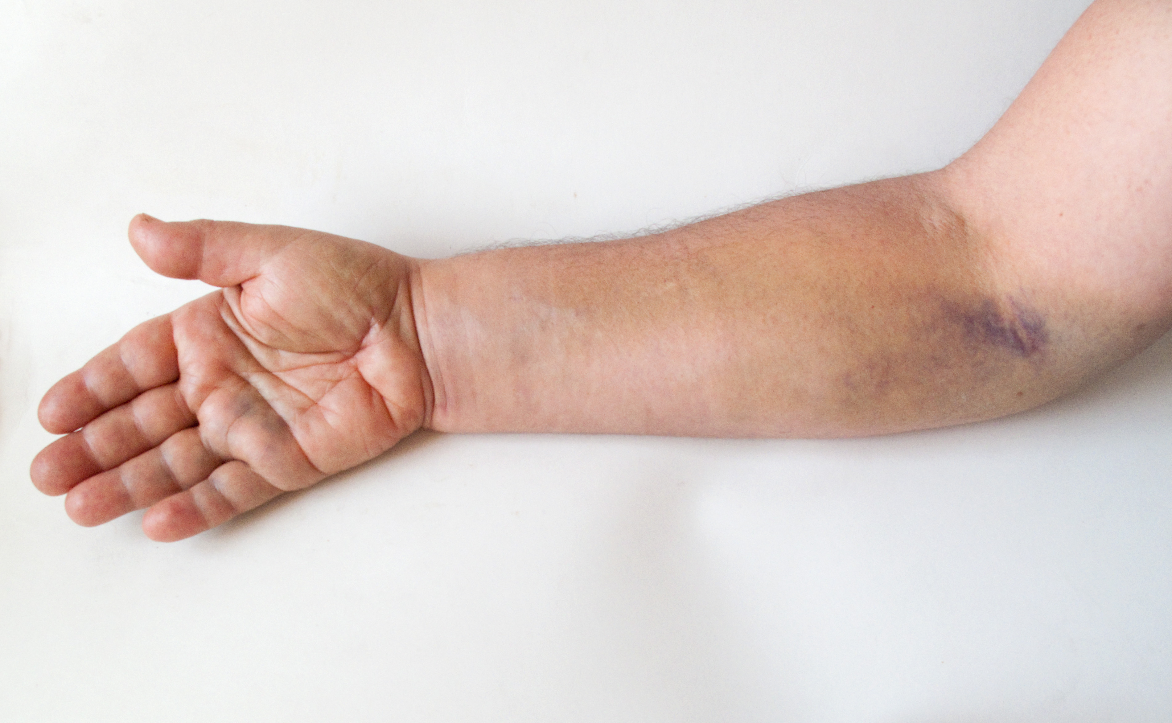 Right wrist, hand, and arm 8 days after sprain of wrist. I slipped on the ice and put down my hand behind me. Medical treatment consisted of ice packs and rest. Note: After 1 year, the wrist is healed but it is still a little swollen and stiff, and does not have full range of motion.